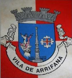 Arrifana